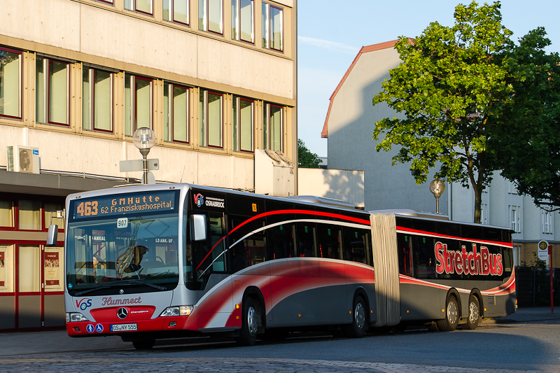 StretchBus (CapaCity; ex demonstration vehicle) from Hummert Reisen at Osnabrück main station.